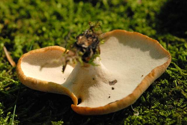 Polyporus leptocephalus from Commanster, Belgium. The determination of the species shown in this picture has been verified.